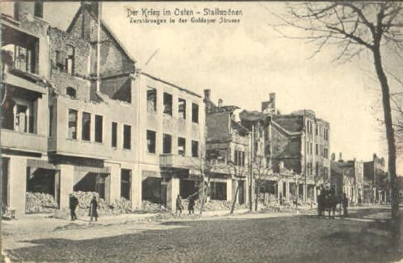 Nesterov (Stallupönen) in 1915Stallupönen